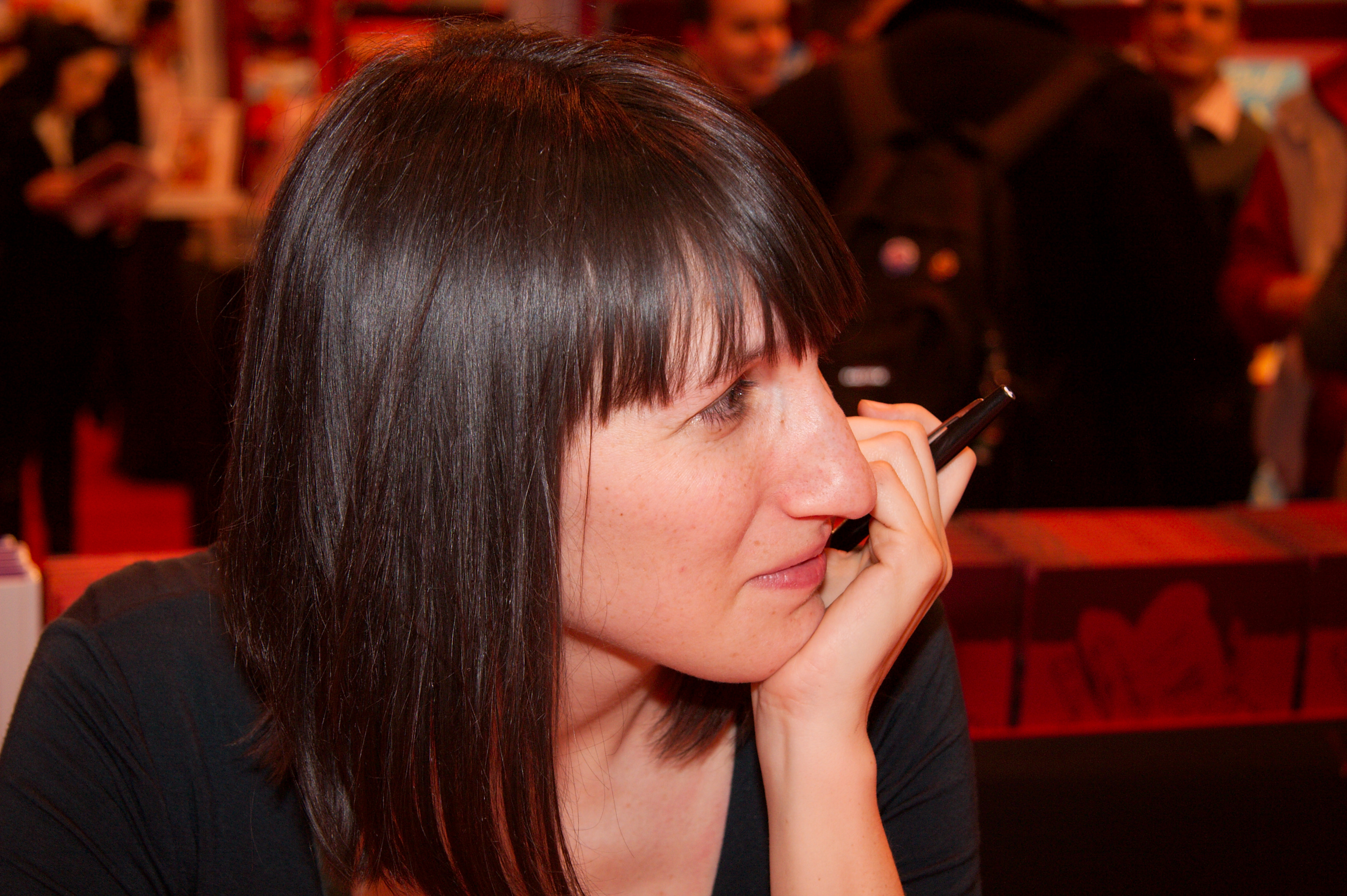 Autograph session with Catherine at Salon du livre 2008 (Paris, France)